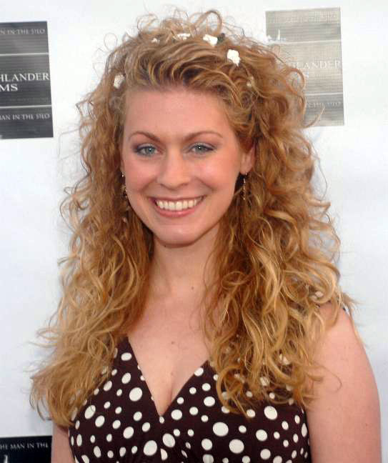 American actress Jodi Shilling at the premiere of the movie The Man in the Silo